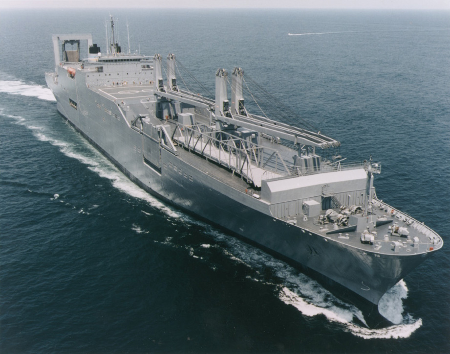 USNS Gordon is one of Military Sealift Command's nineteen Large, Medium-Speed Roll-on/Roll-off Ships and is part of the 18 ships in Military Sealift Command's Sealift Program Office. Length: 954 feet Beam: 105 feet, 8 inches Draft: 35 feet, 9 inches Displacement: 59,803 long tons Speed: 24.0 knots Civilian: 30 contract mariners The vessel is named after a Congressional Medal of Honor awardee.